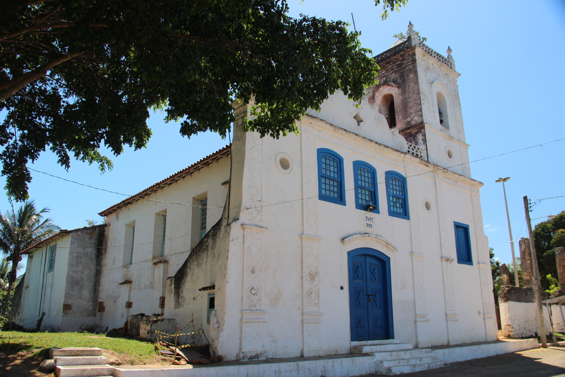 Igreja de Nossa Senhora da Ajuda, construida por jesuítas